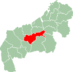 Location map of Ambatoboeny region in Mahajanga province.